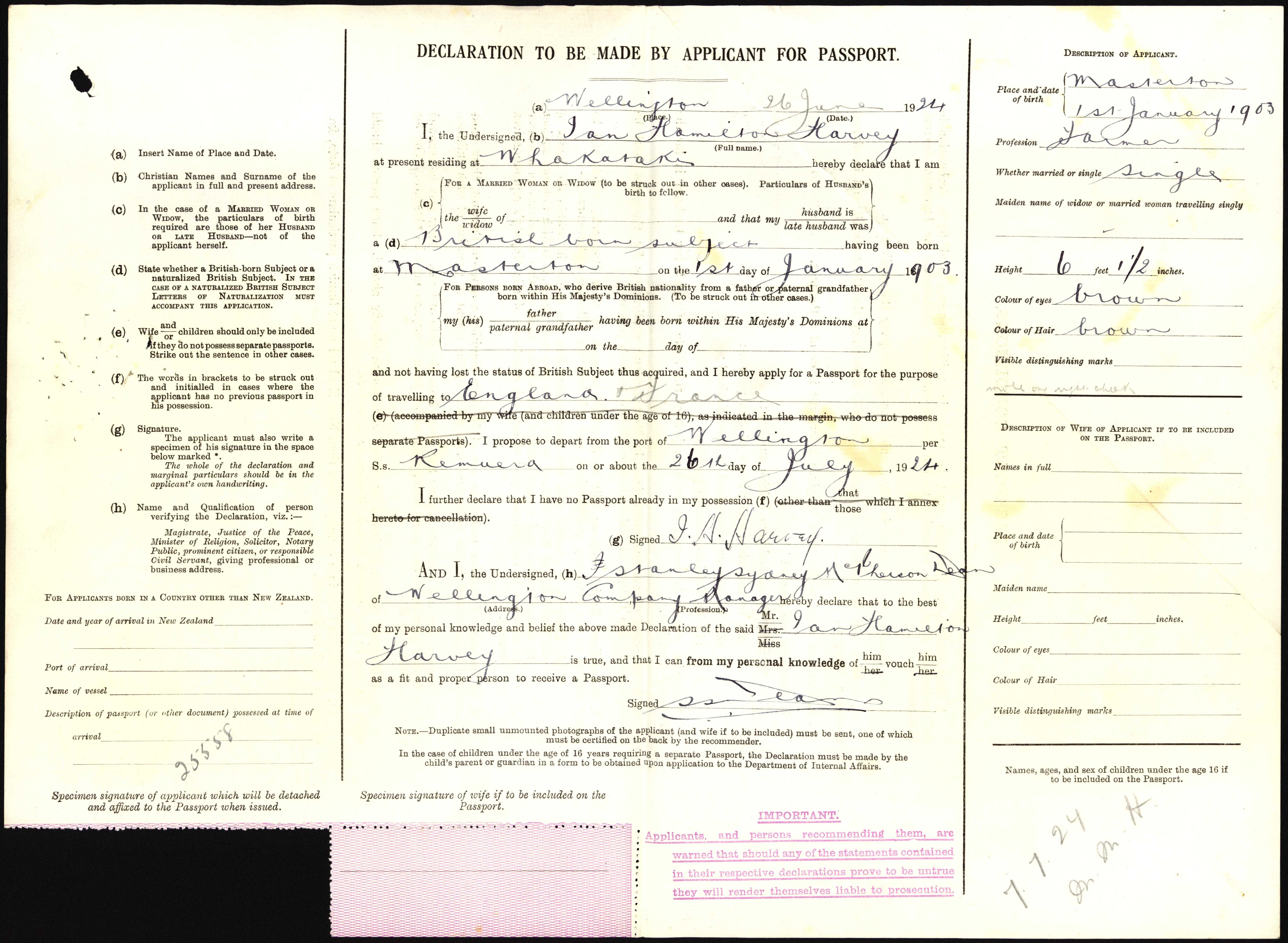 ACGO 8333 IA1 1349 / 15/11/17721 Ian Harvey passport application (1924)